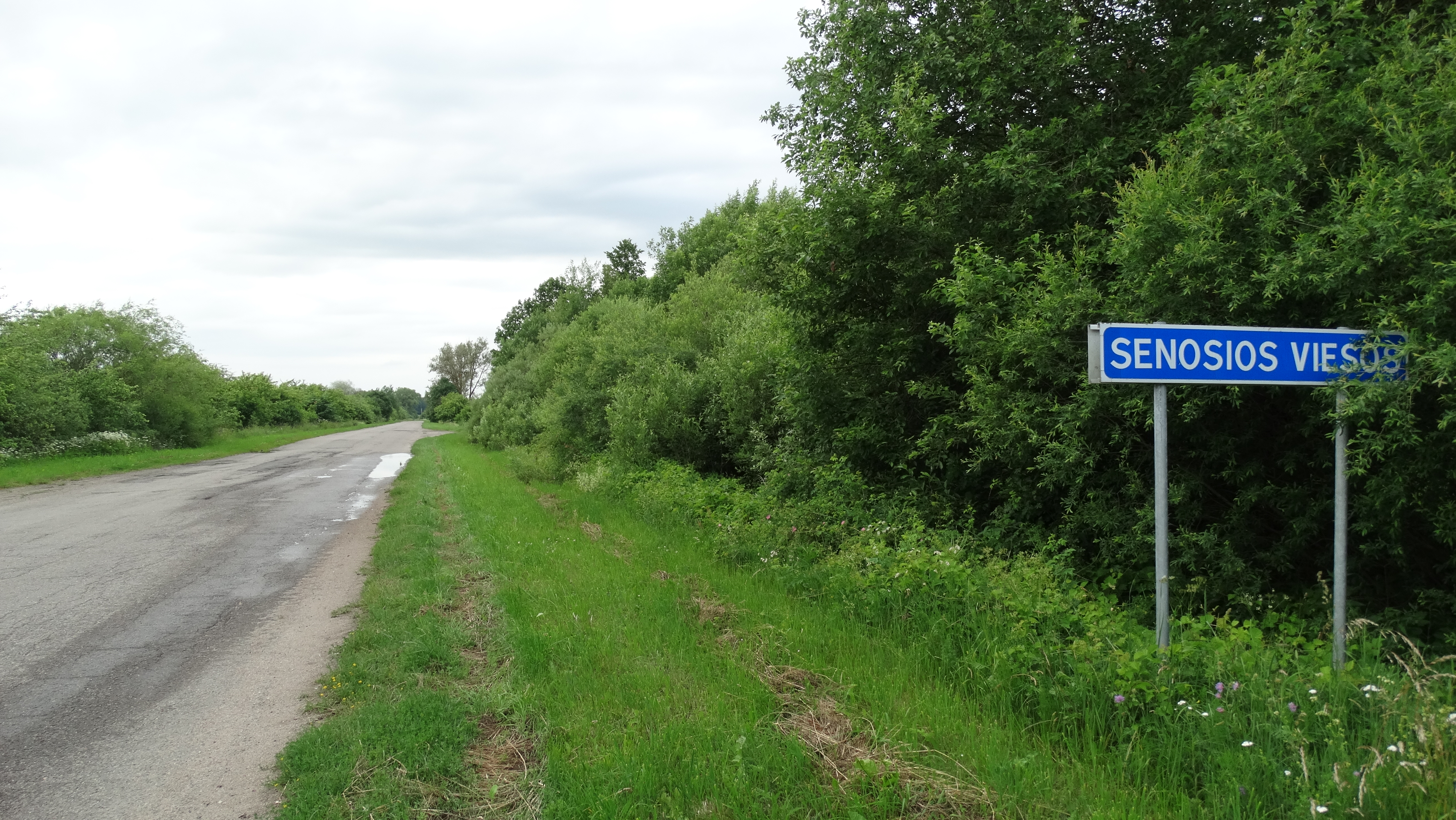 Senosios Viesos, Širvintos District, Lithuania